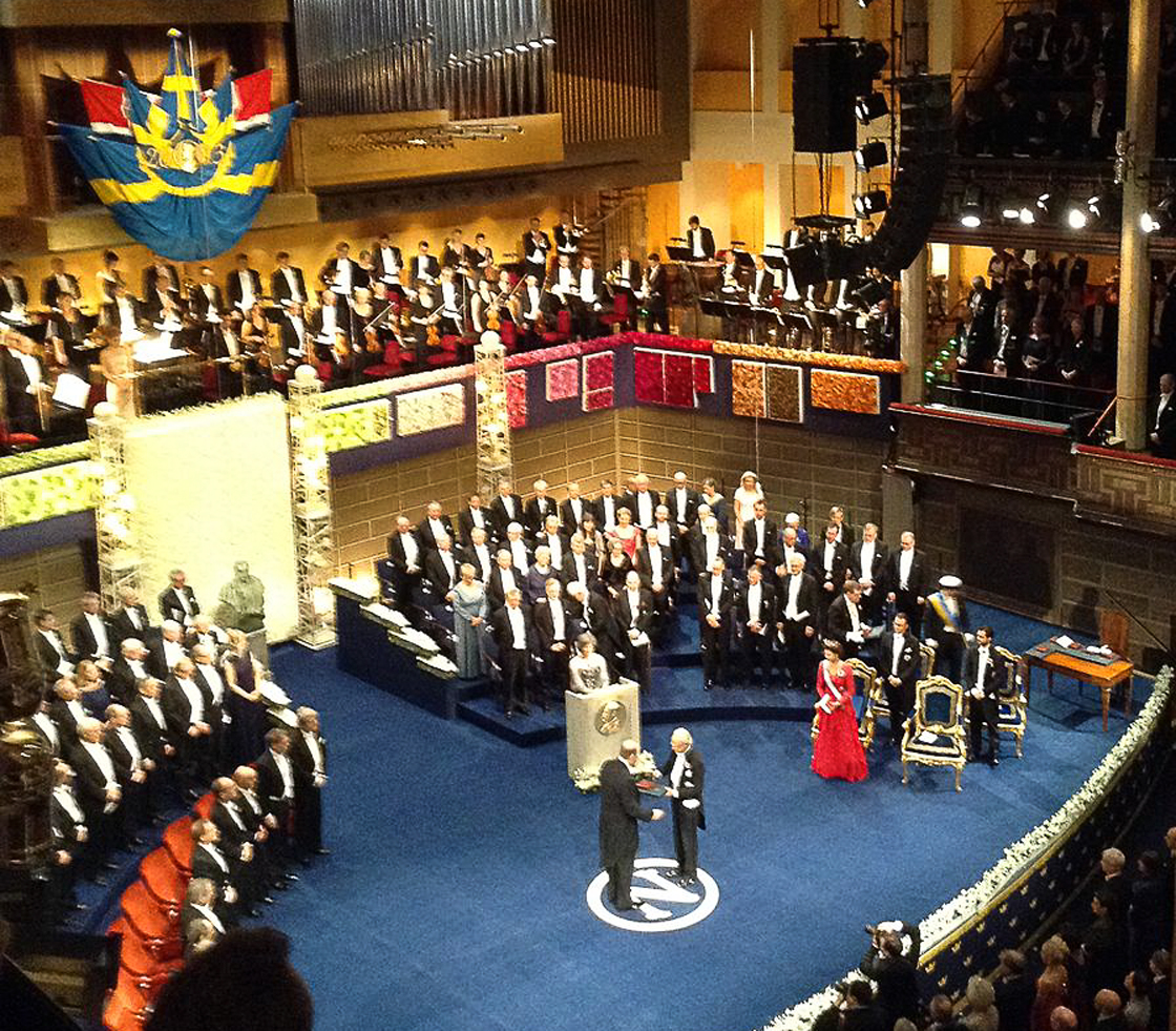 James Rothman receives Nobel Prize 2013 - Andrux